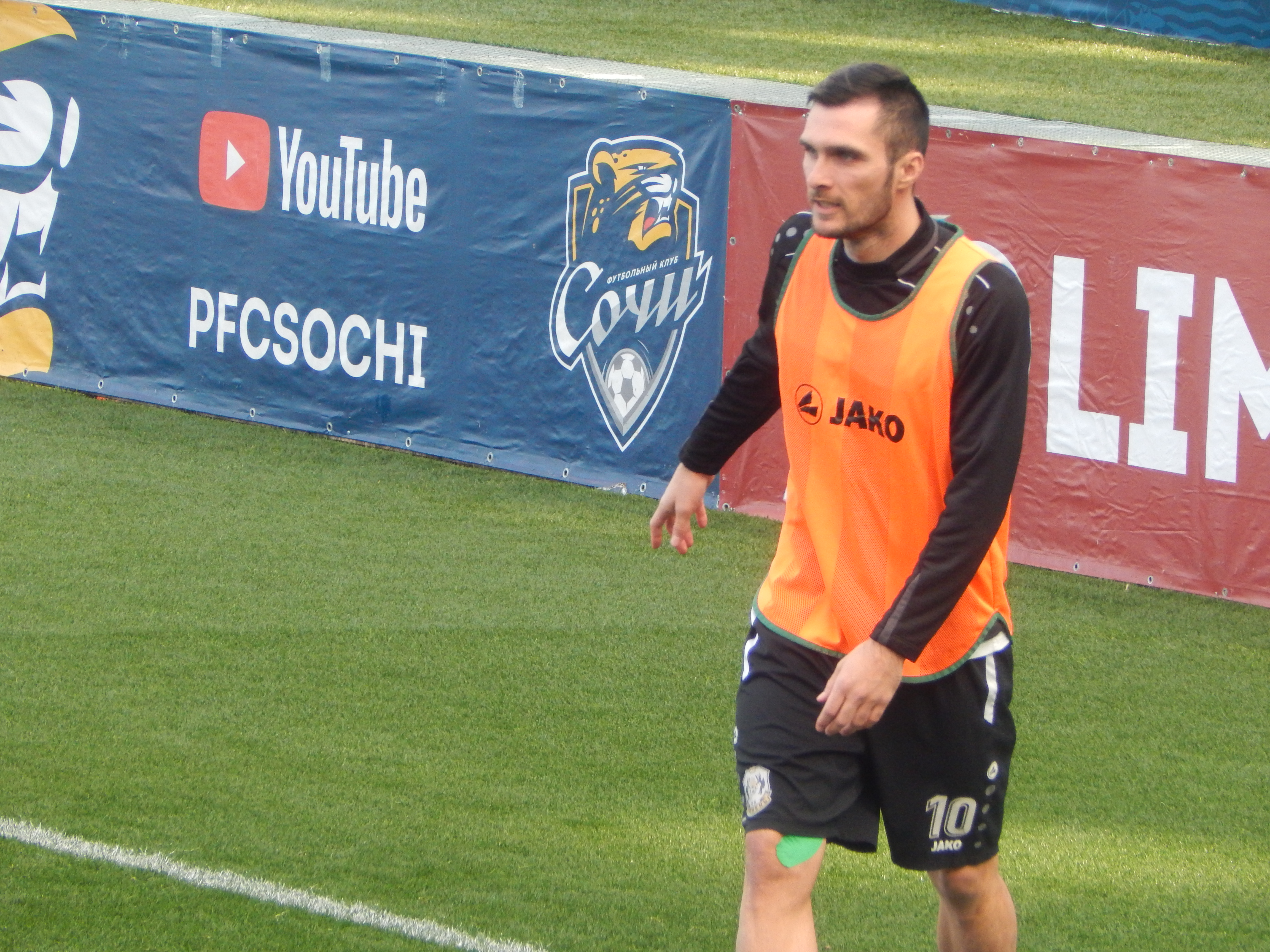 2018–19 Russian National Football League, match between FC Sochi and FC Tyumen. April 7, 2019, Fisht Olympic Stadium, Sochi, Russia